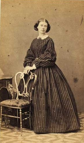 Louise Frederikke Gustava Bille-Brahe, née Hochschild (1830-1910), Danish countess and hofmesterinde (royal housemistress)